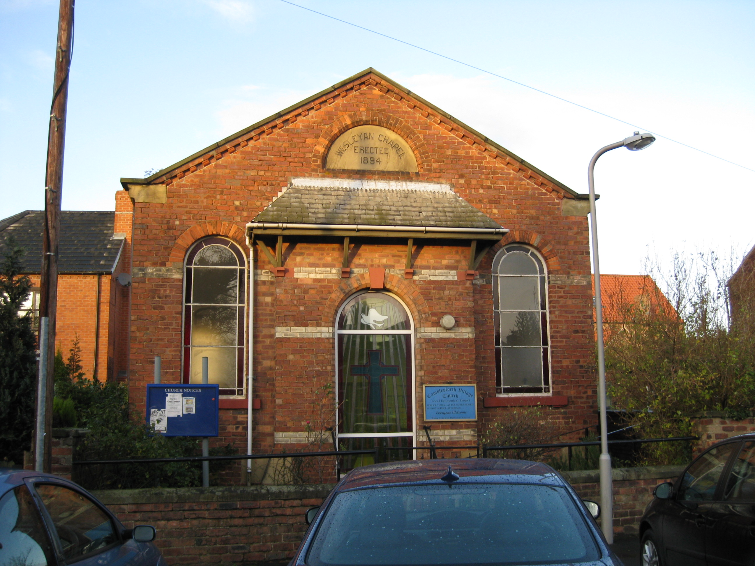 Methodist church in Brigg Lane, Camblesforth, North Yorkshire YO8 8HJ. Built in 1894 as a Wesleyan Chapel.